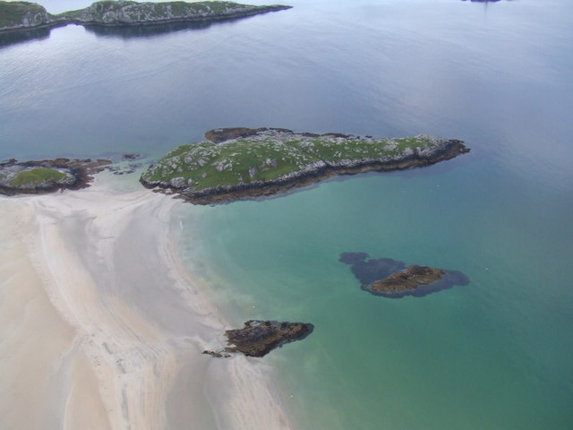 Beach nr. Killadoon, Co.Mayo Small island (well almost) off the Beach.